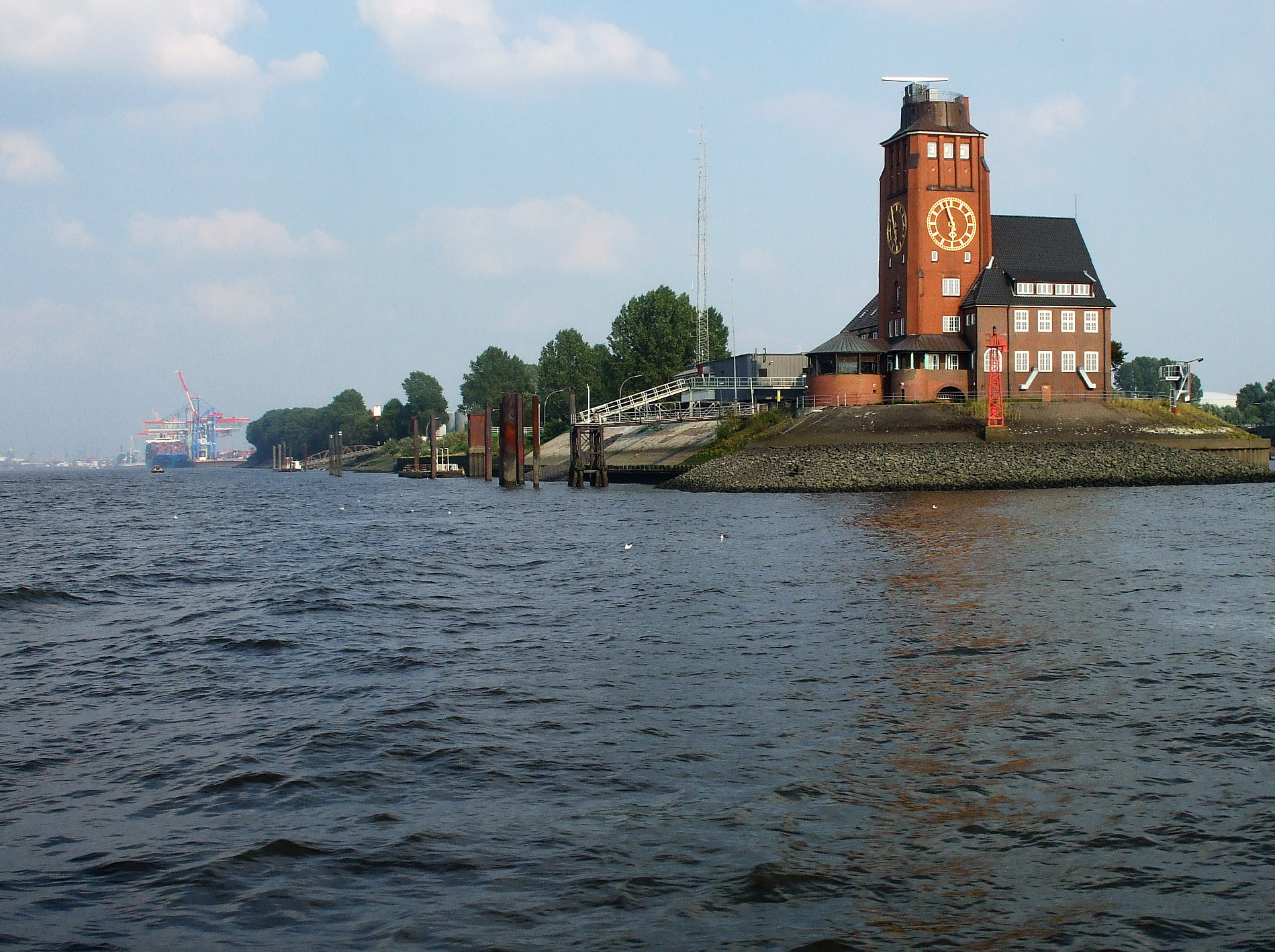 Historical pilot station at Bubendey-Ufer, Hamburg-Waltershof. This place is giving an excellent panoramic view over Elbe River to the pilots.